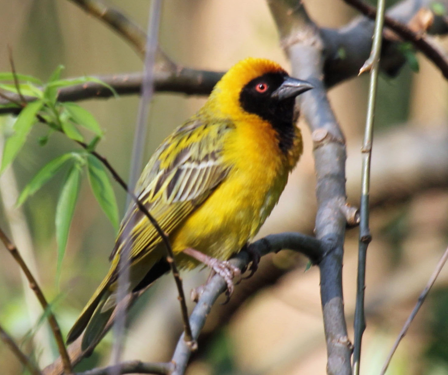 Male Southern Masked Weaver (Ploceus velatus) at Johannesburg